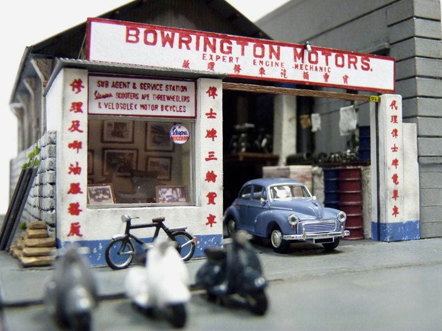 A scratch-built model of author's grandfather's Vespa Garage in Wing Hing Street, Causeway Bay, Hong Kong 1950s.